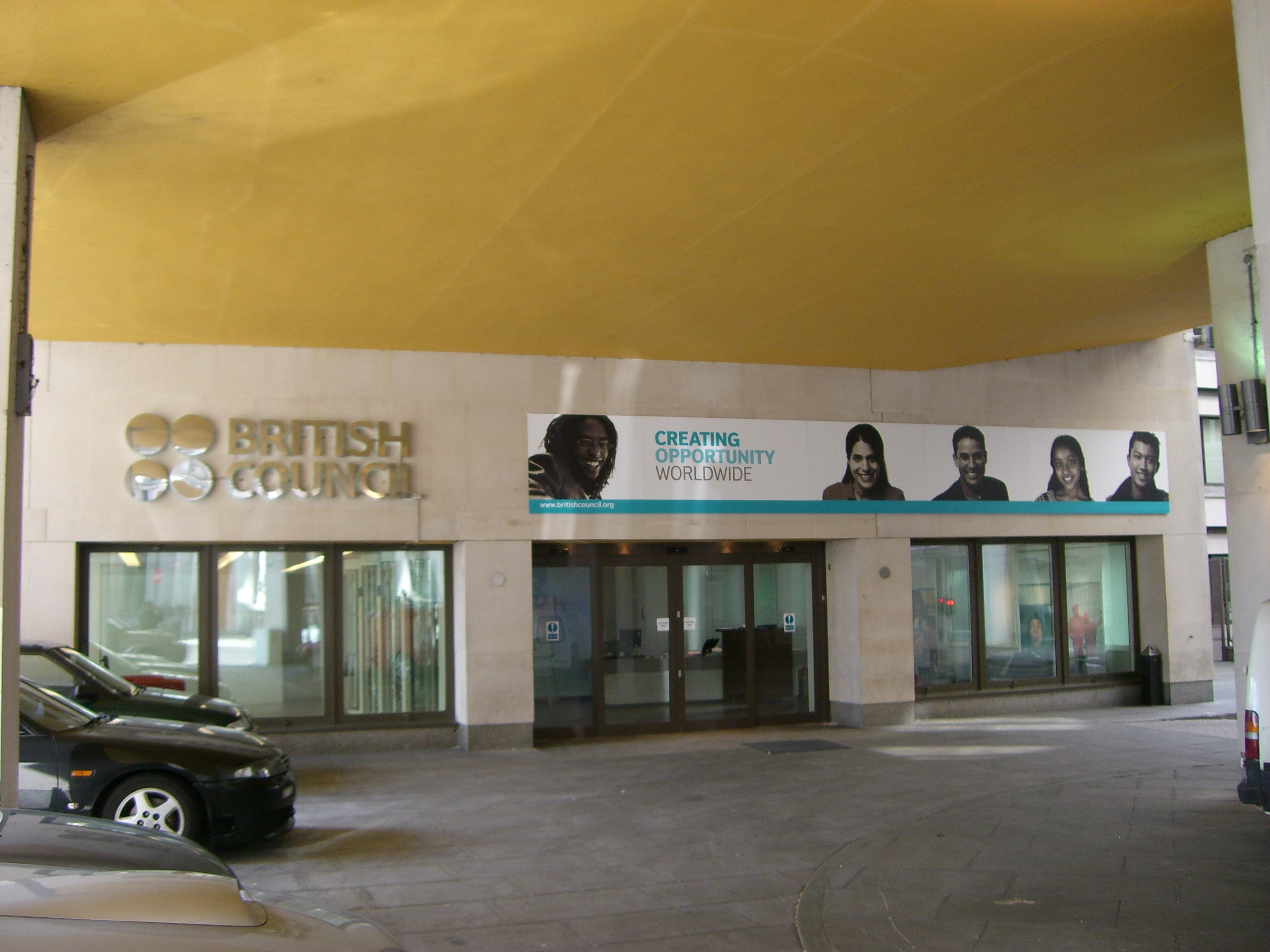 British Council, 10 Spring Gardens, London SW1A 2BN Photo taken by User:Edward on 19 March 2006 with a Casio EX-S600.